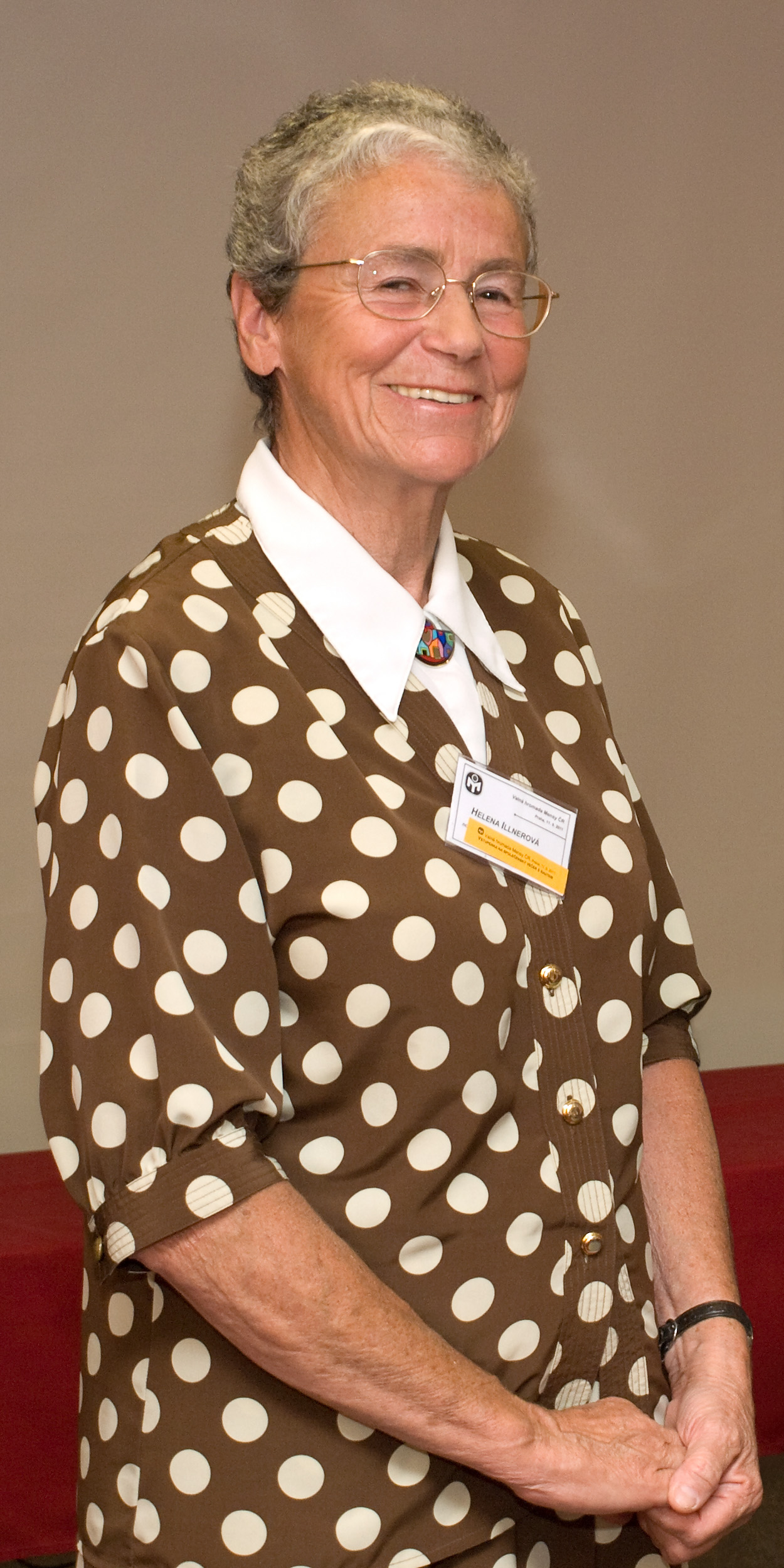 Czech physiologist and biochemist Helena Illnerová